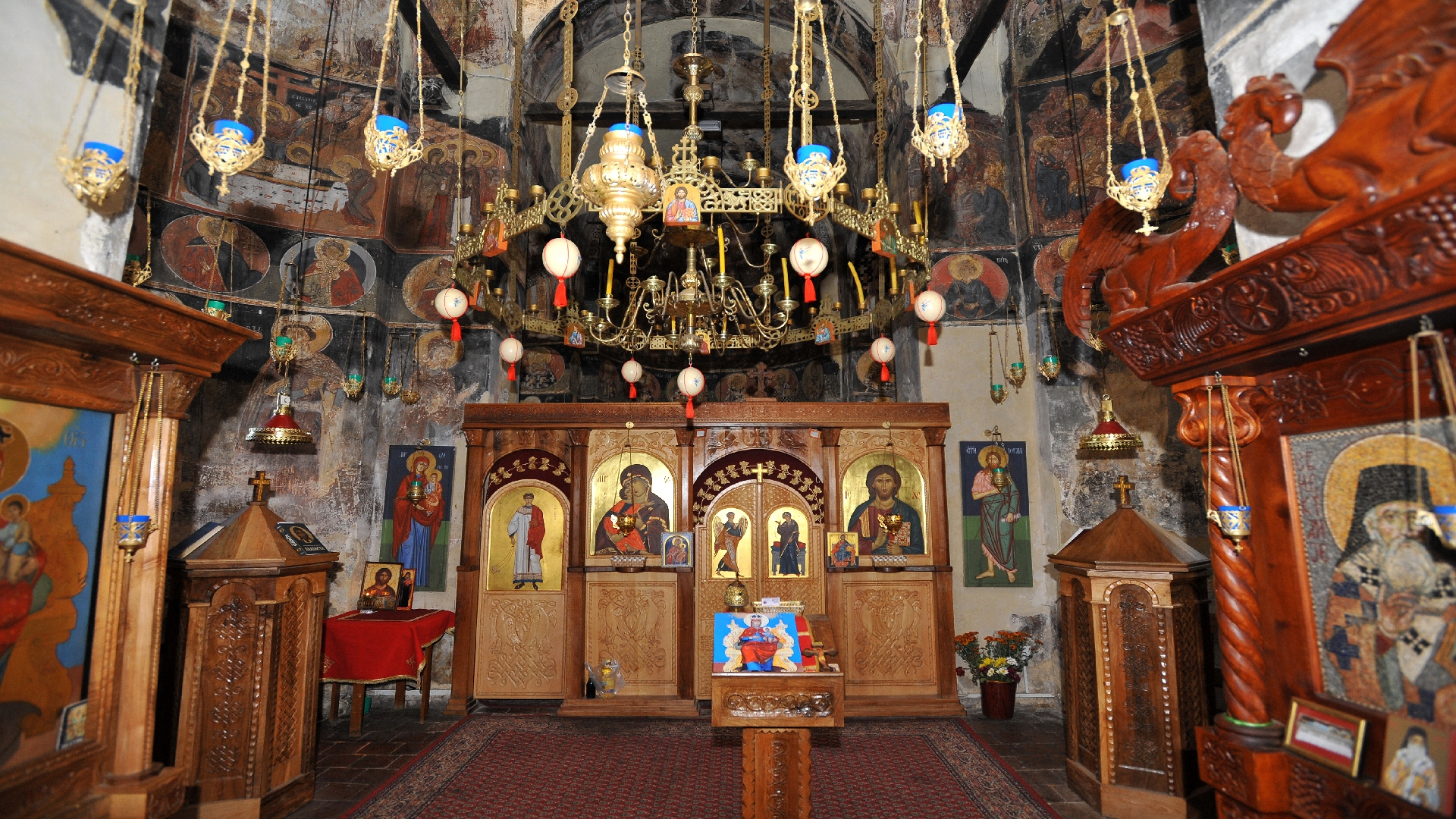 Iconostasis inside of Church of the Dormition of the Holy Virgin on Old Smederevo cemetery